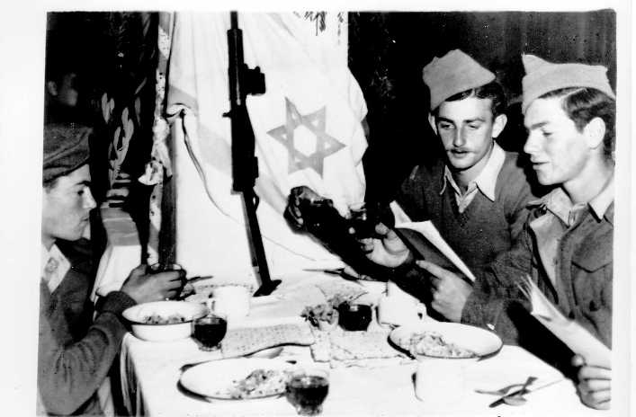 Israel Defense Forces